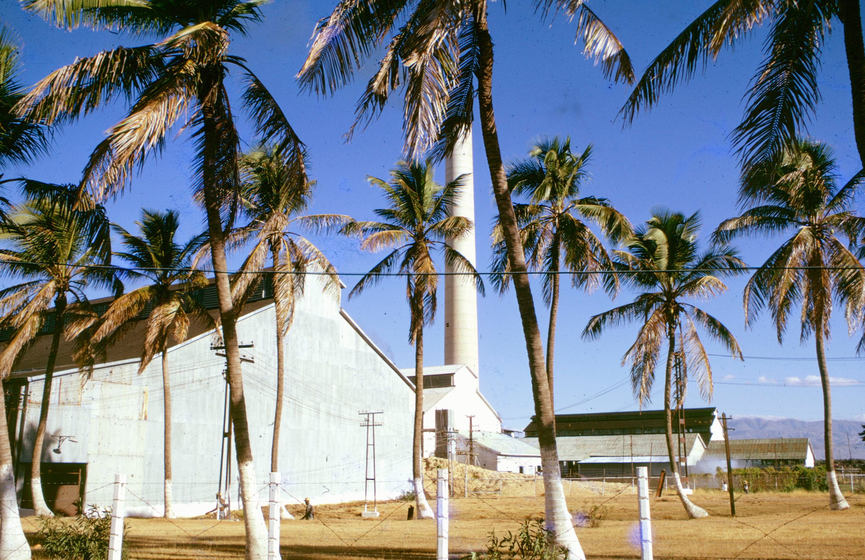 Port-au-Prince HASCO sugar-refinery in 1974